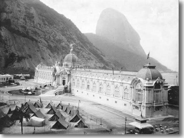 Escola Militar da Praia Vermelha, Rio de Janeiro, Brazil.